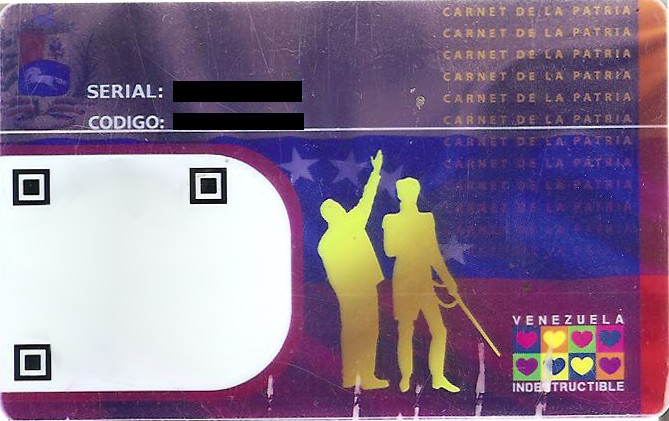 Venezuelan Carnet de la Patria reverse. QR code, serial and code redacted to protect owner's identity.